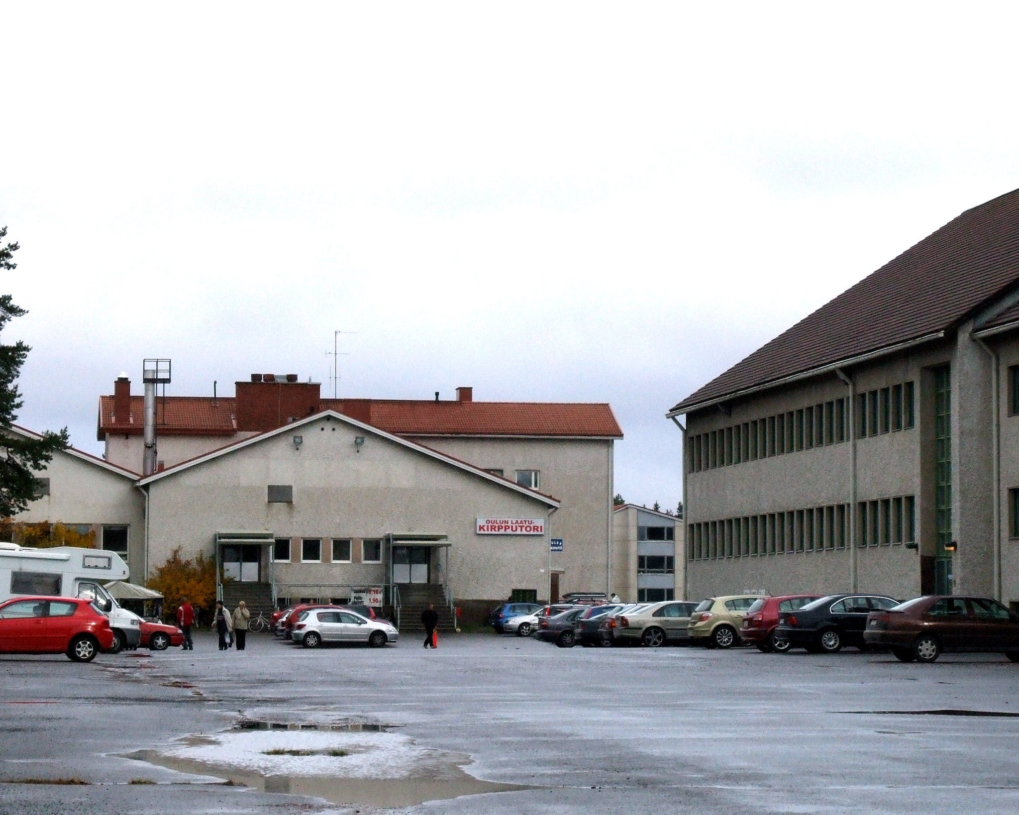 The barracks of the army has been turned into Fleamarket (Oulun laatukirpputori = Oulu's Quality Fleamarket) in Hiukkavaara neigbourhood, which previously was one of the two military bases in Oulu, Finland.